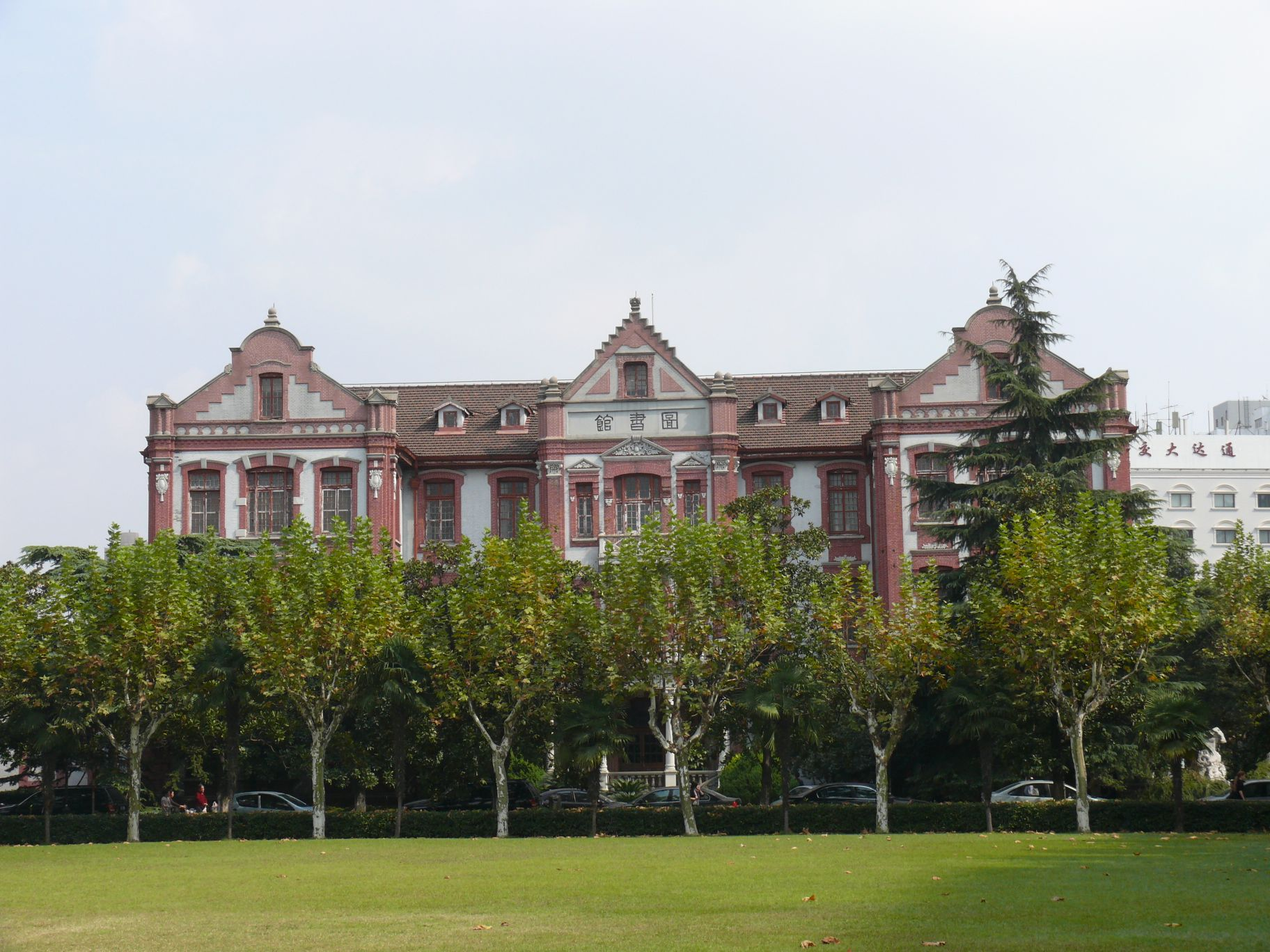 Old library of Shanghai Jiao Tong University